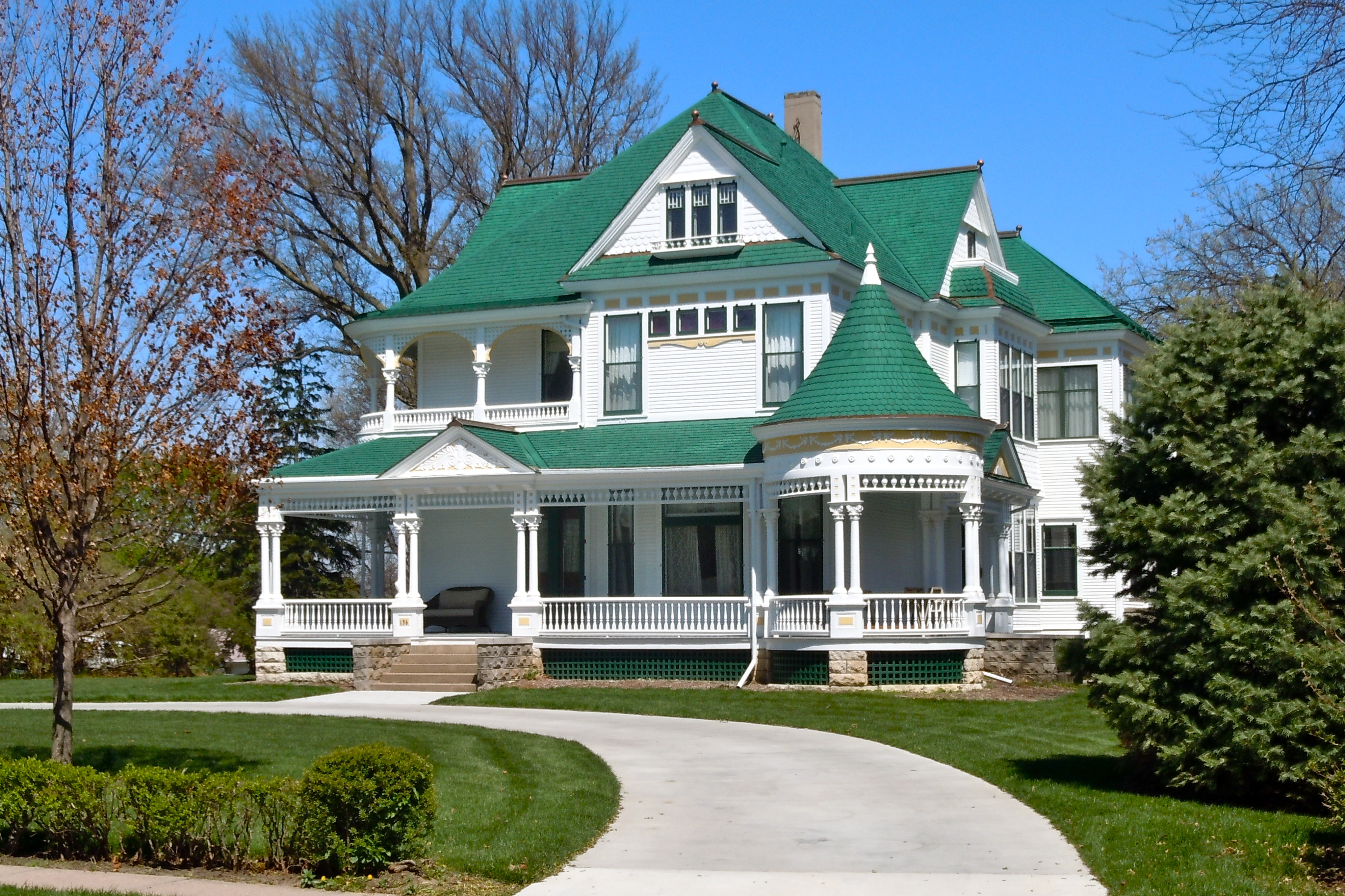 Harry T. Jones House on the NRHP since November 28, 1990. At 136 N. Columbia Ave., Seward, Seward County, Nebraska